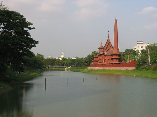 Dhanmandi lake at Dhaka